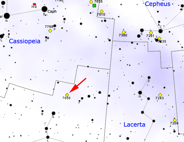 Map of NGC 7686